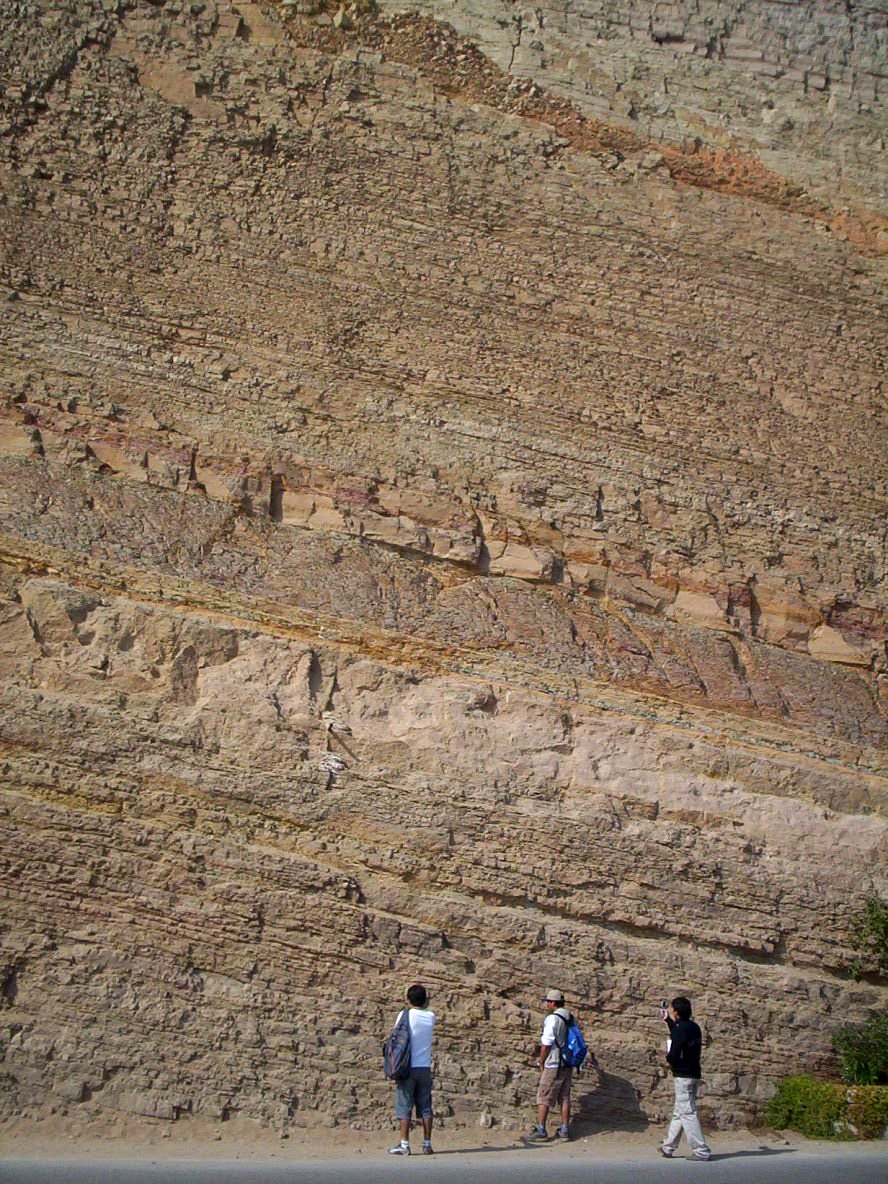 Geological stratification of sedimentary formation, about 140 million years old, of Morro Solar. Lima, Peru.